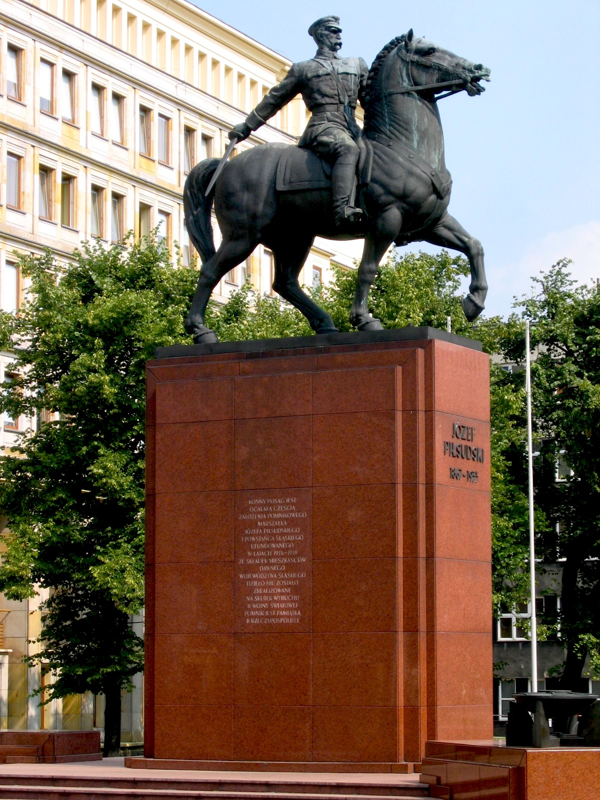 The monument to Marshal Józef Piłsudski in Katowice, Poland